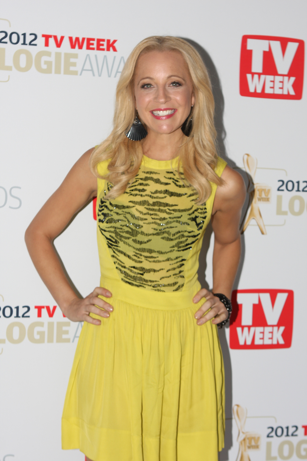 Carrie Bickmore, TV Week Logie Nominations In Sydney, Australia